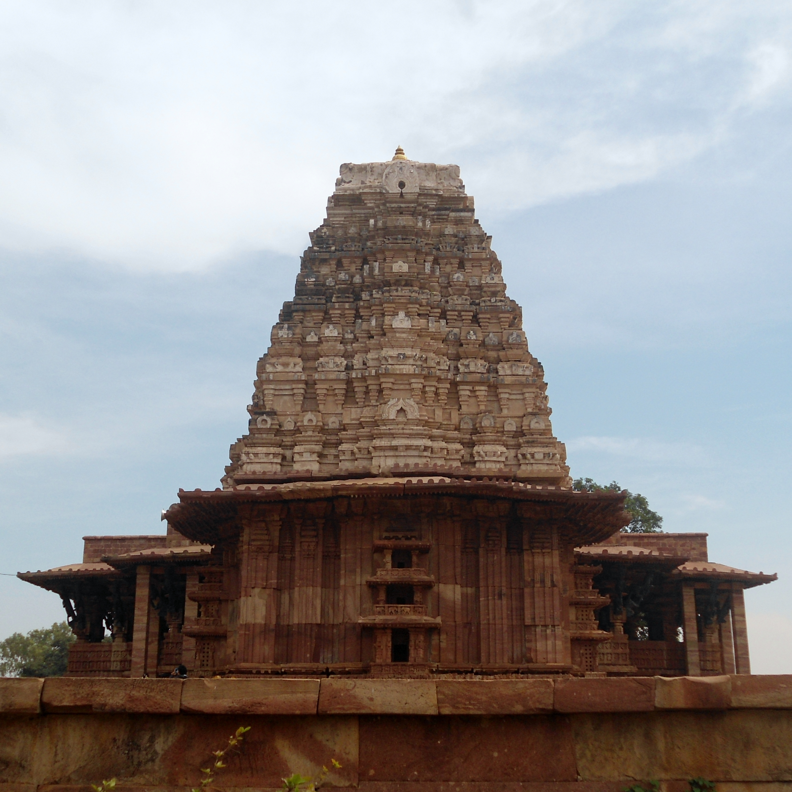 A view of Ramappa Temple, Palampet, Warangal district, Telangana